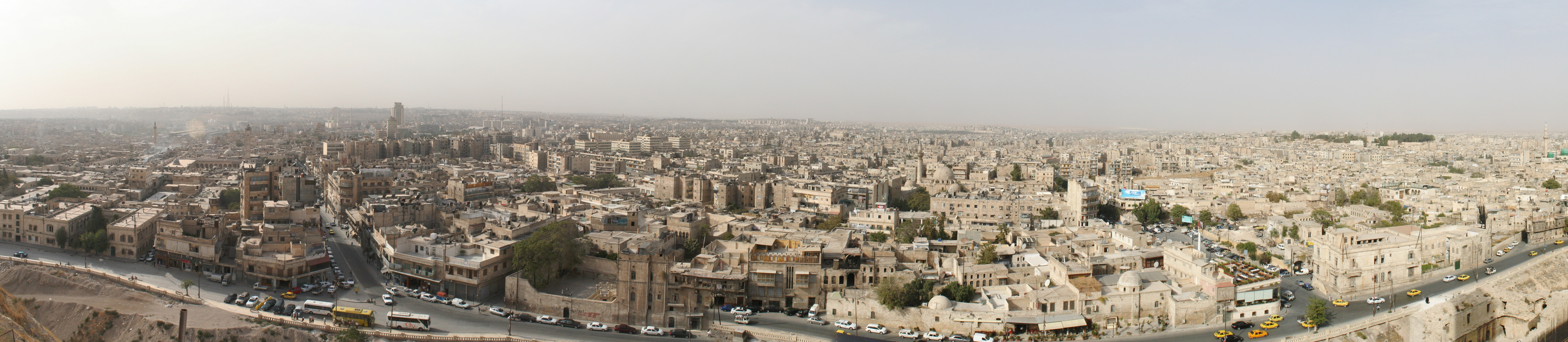 Panoramic view over Aleppo taken from the citadel (from west to north).